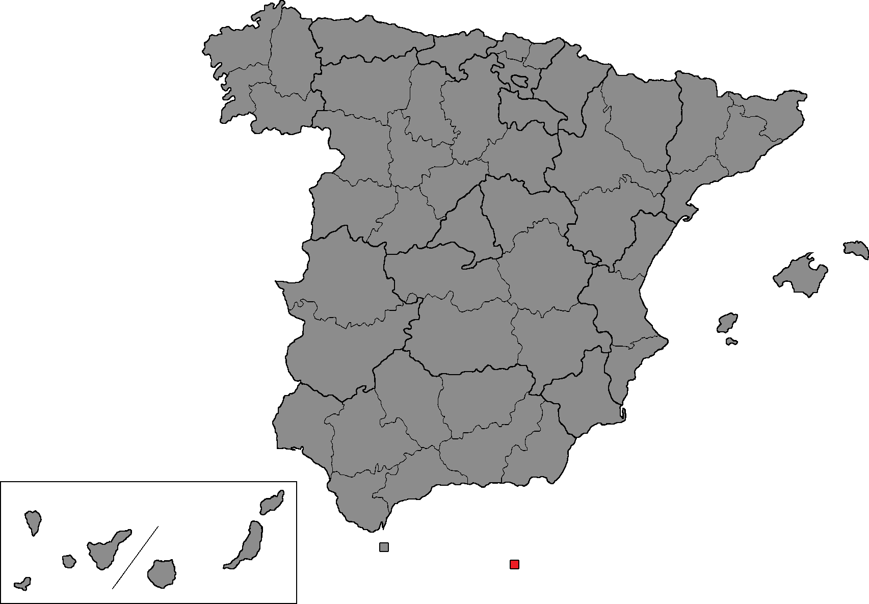 Spanish Congress of Deputies district of Melilla.